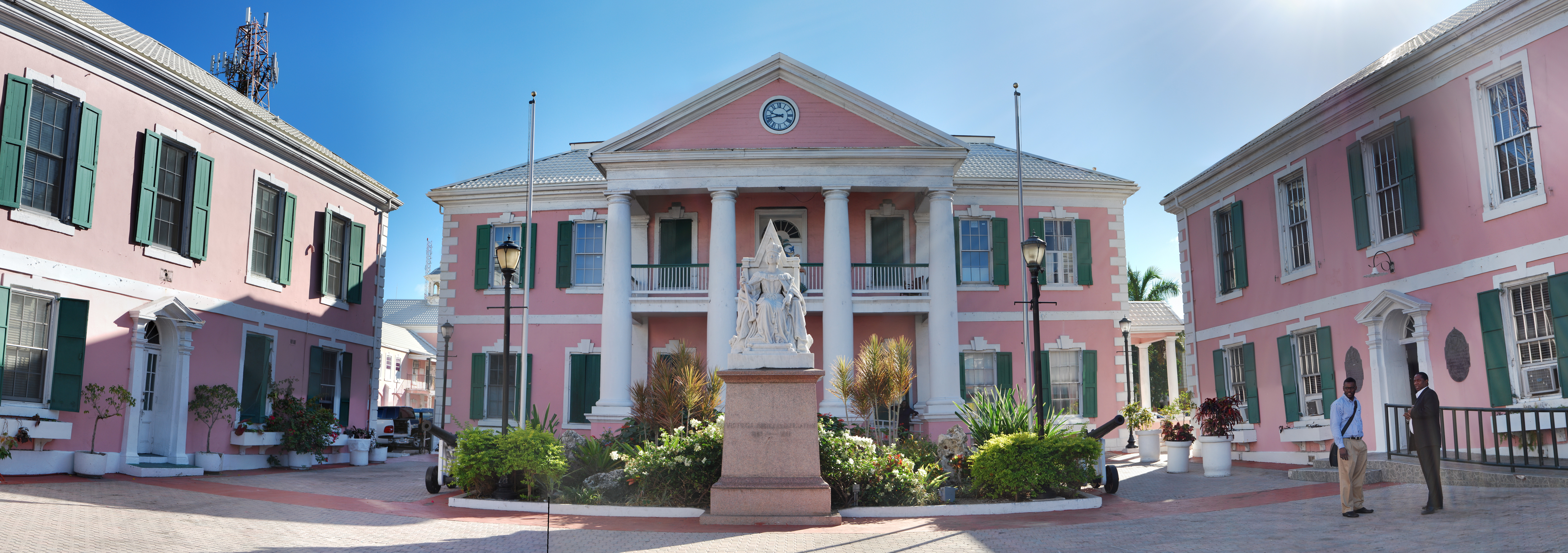 Parliament of the Bahamas, located in downtown Nassau, is the meeting place of the two houses of the Bahamian Parliament.